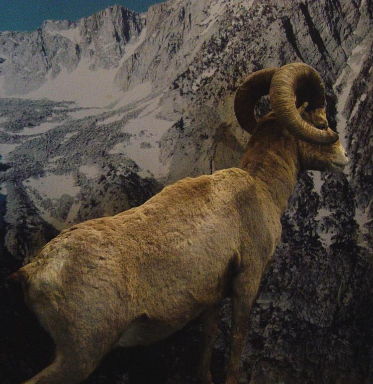 Stuffed specimen of a Sierra Nevada bighorn sheep, at the Mono Lake Visitor center, Lee Vining, California